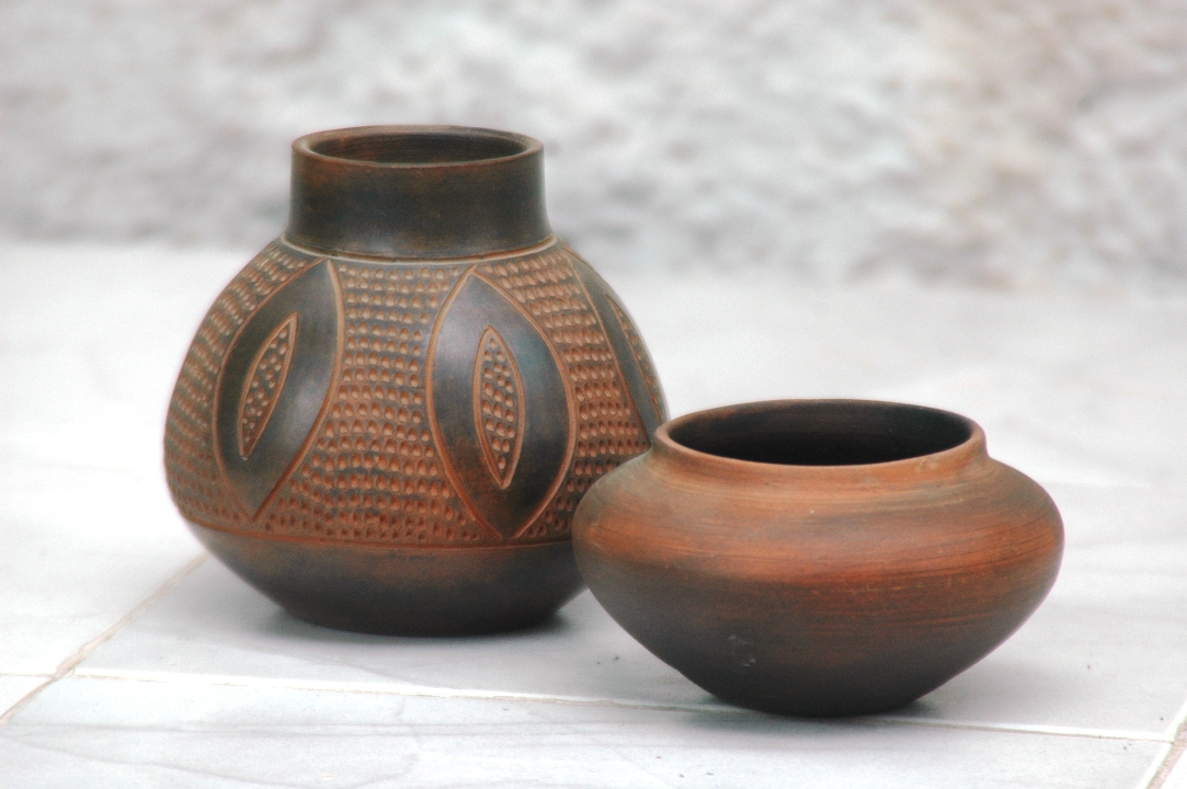 Thracian ceramic - Lili Tankova and Lubimo Minkov